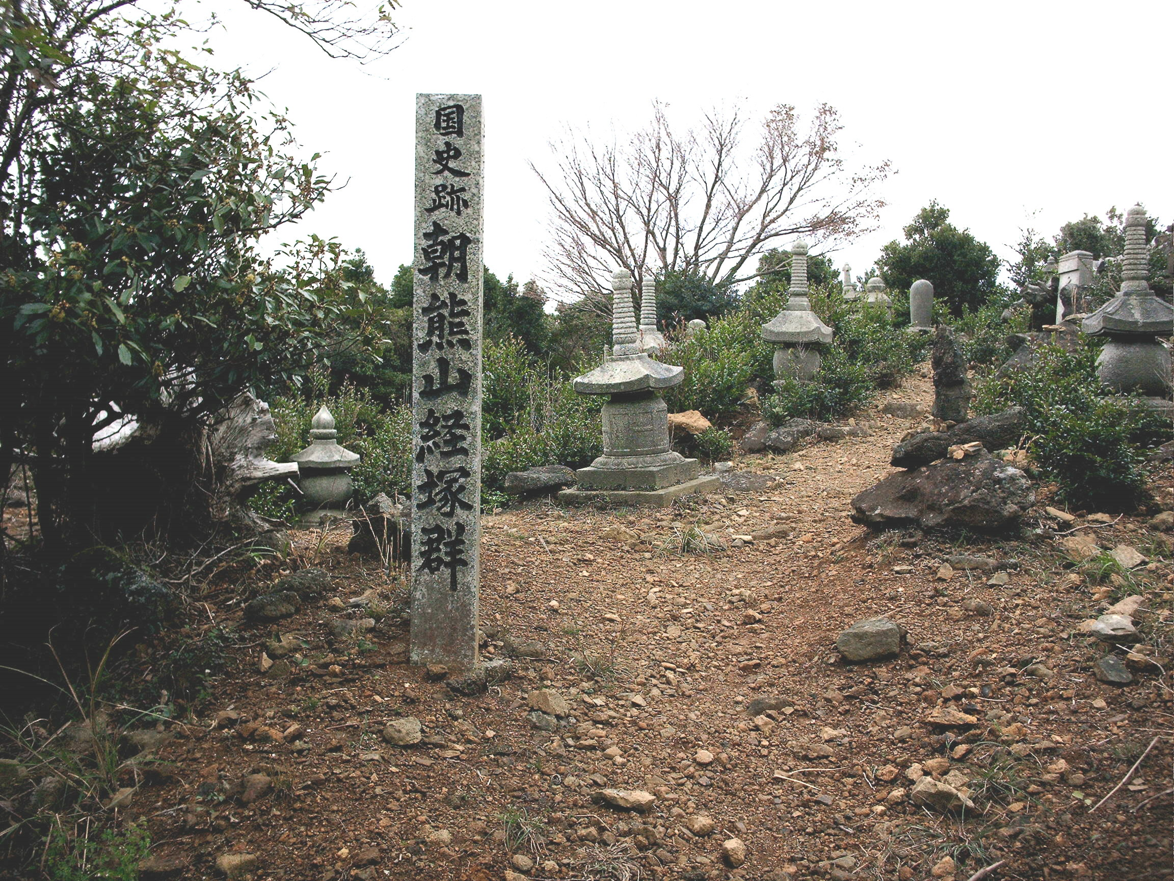 Sutra mounds at Mt. Asama-yama in Mie Pref, Japan.